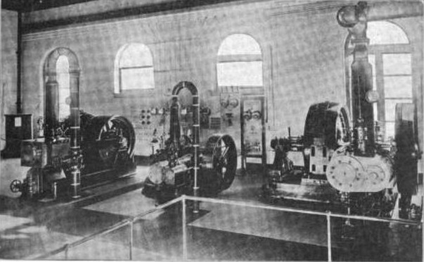 View of St. Louis Municipal Electric Power Plant in 1902. Left: 100 kW direct-current steam generator for railway. Middle: Exciter. Right: 100 kW single-phase steam alternator for lights.